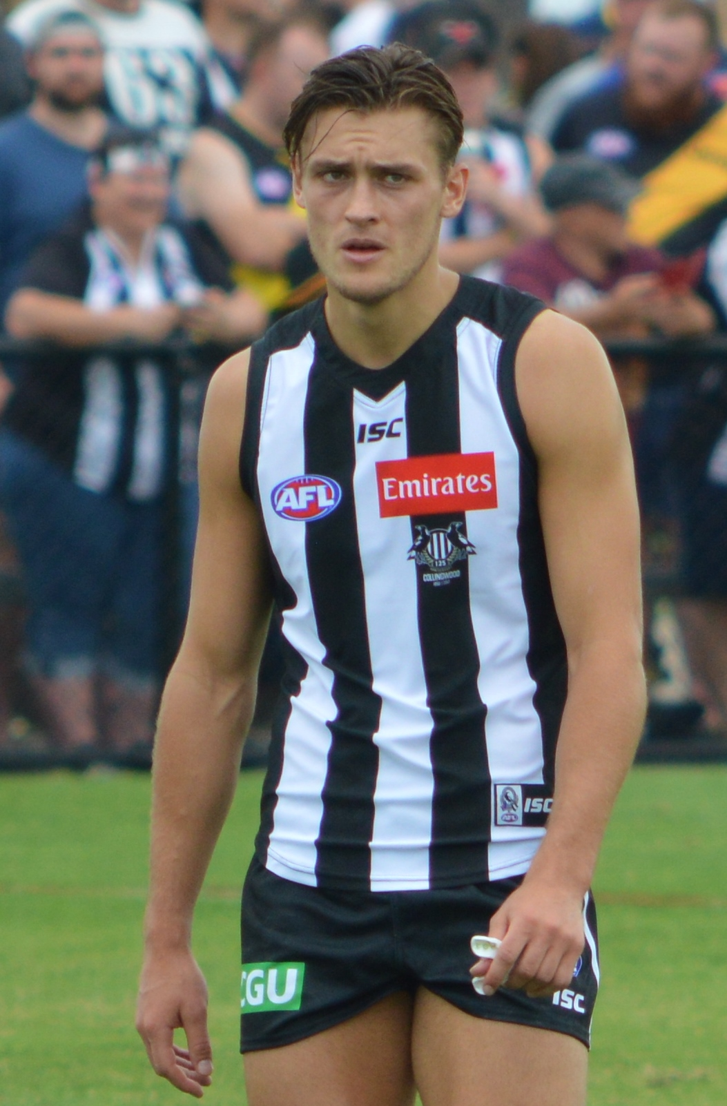 Darcy Moore during a pre-season match in March 2017